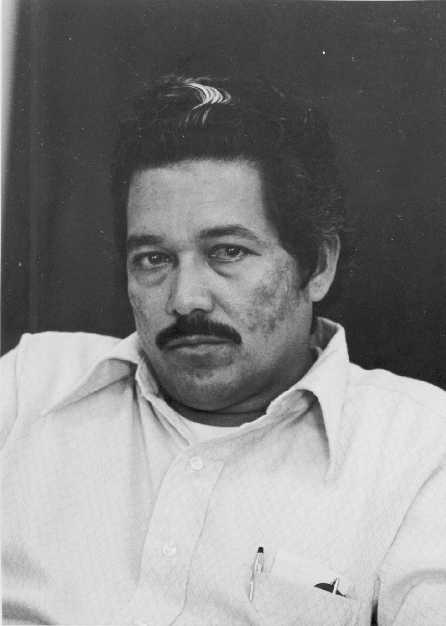 Distad Leo Falcam, 1972 portrait.